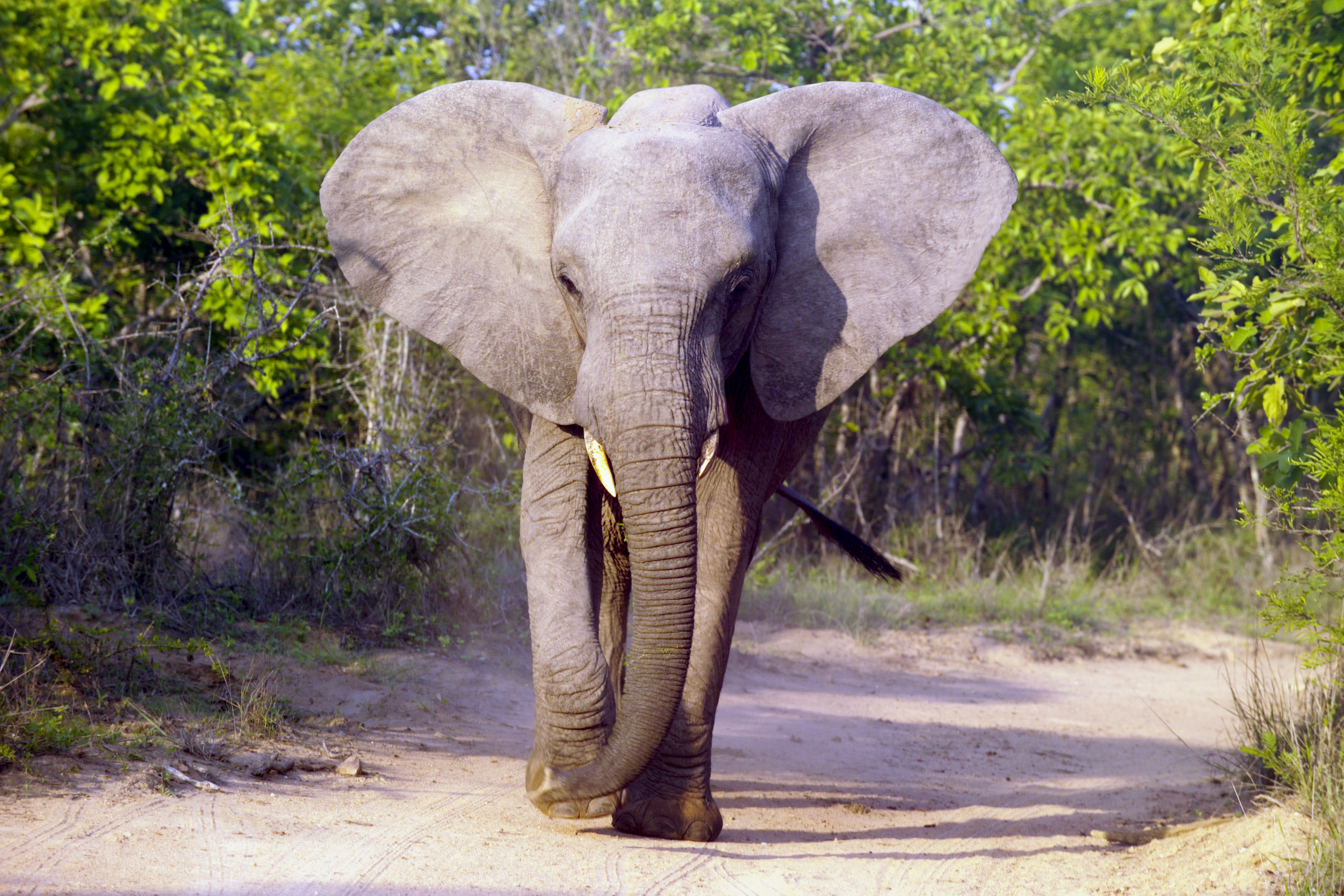 Elephant (Loxodonta africana), Kruger National Park, South Africa.